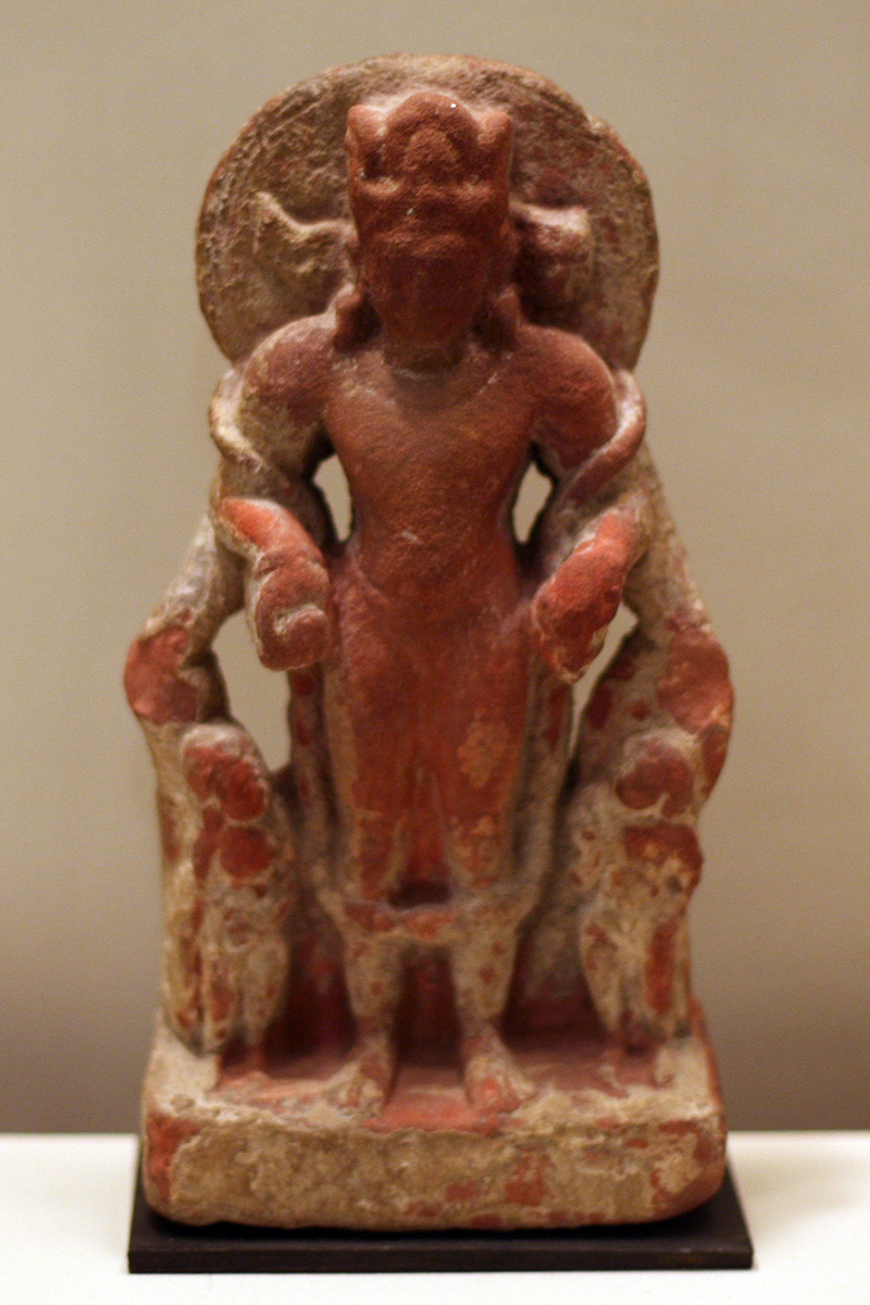 Vishnu Caturanana (Four Armed), 5th century C.E. Red sandstone. Brooklyn Museum, Gift of Marilyn W. Grounds, 76.260.12. Wikipedia Loves Art at the Brooklyn Museum This photo of item # [1] at the Brooklyn Museum was contributed under the team name "shooting_brooklyn" as part of the Wikipedia Loves Art project in February 2009. Brooklyn Museum The original photograph on Flickr was taken by shooting brooklyn—please add a comment to the original Flickr page whenever a use has been made on Wikipedia or another project. Project galleries on Flickr: this institution, this team